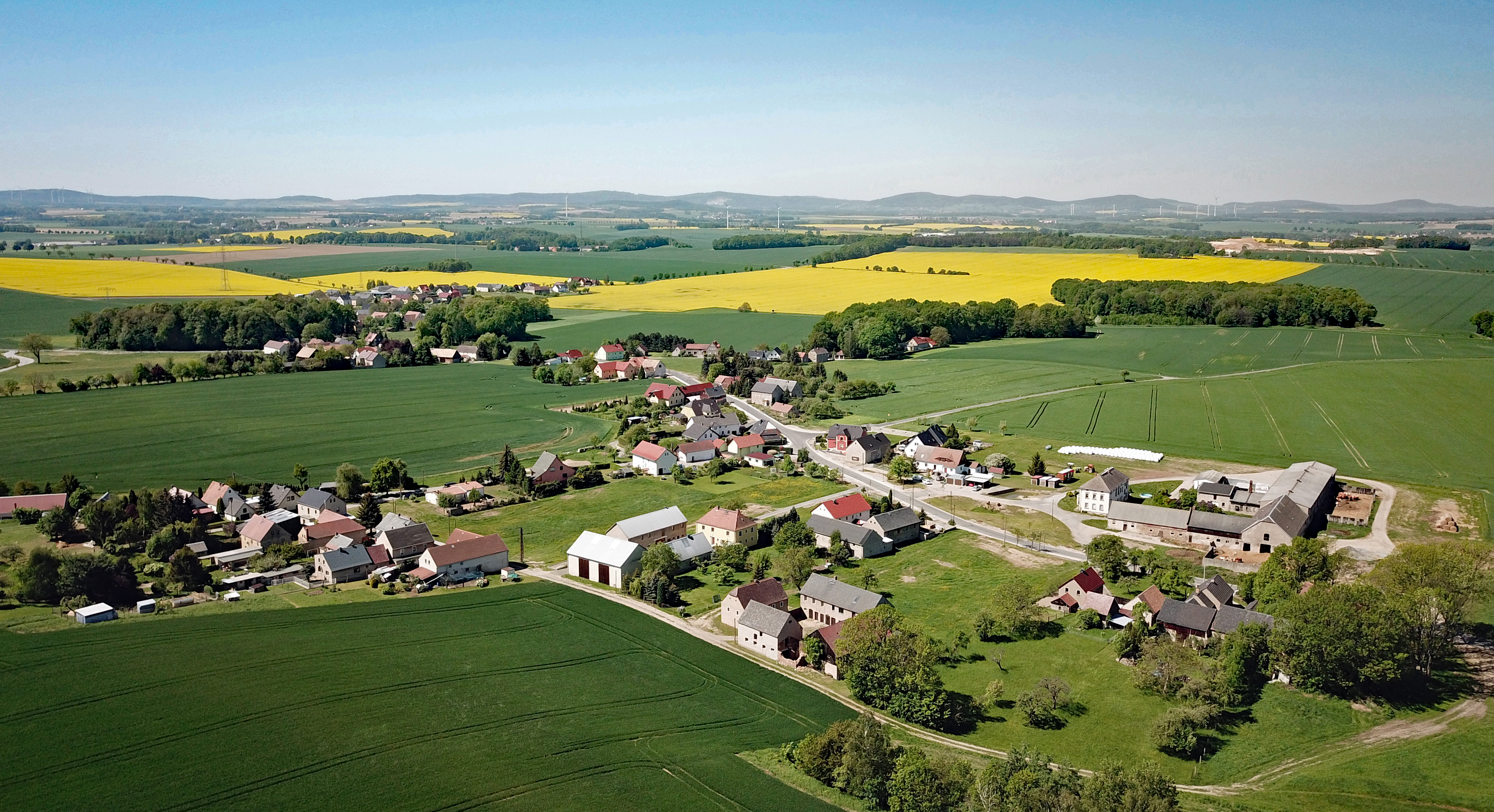 Guhra (Puschwitz, Saxony, Germany) Hornjoserbsce: Powětrowy wobraz Hory